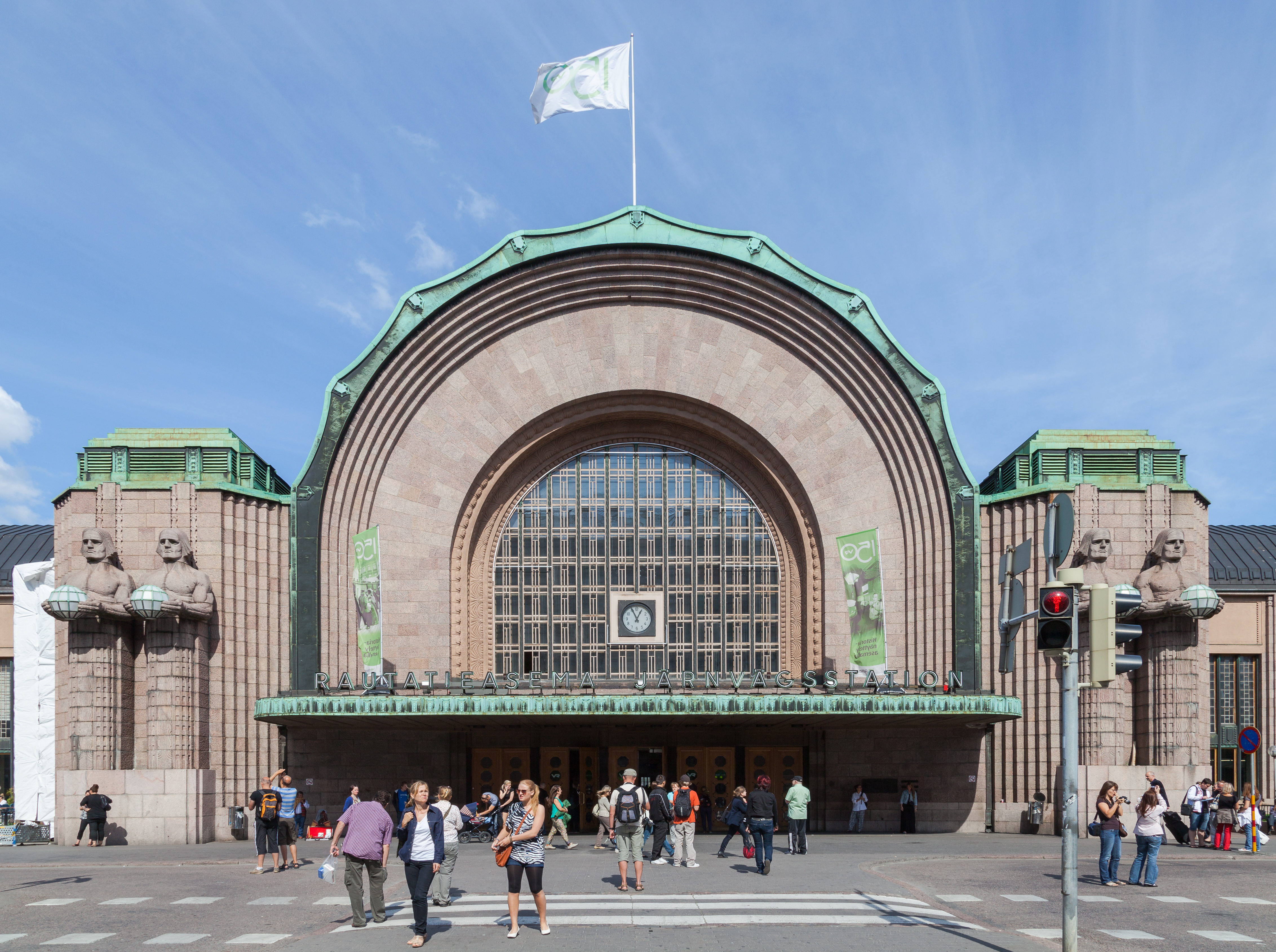 Helsinki Central railway station, Finnland